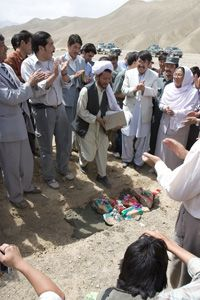 "Local leader lays the cornerstone for a Bamiyan University dorm during the University’s inauguration, Bamiyan, Afghanistan, August 2008. [Photo by Kent Morris (NAS Kabul)]" - Newsletter: The INL Beat, November 2008 U.S. State Department Bureau of International Narcotics and Law Enforcement Affairs Washington, DC